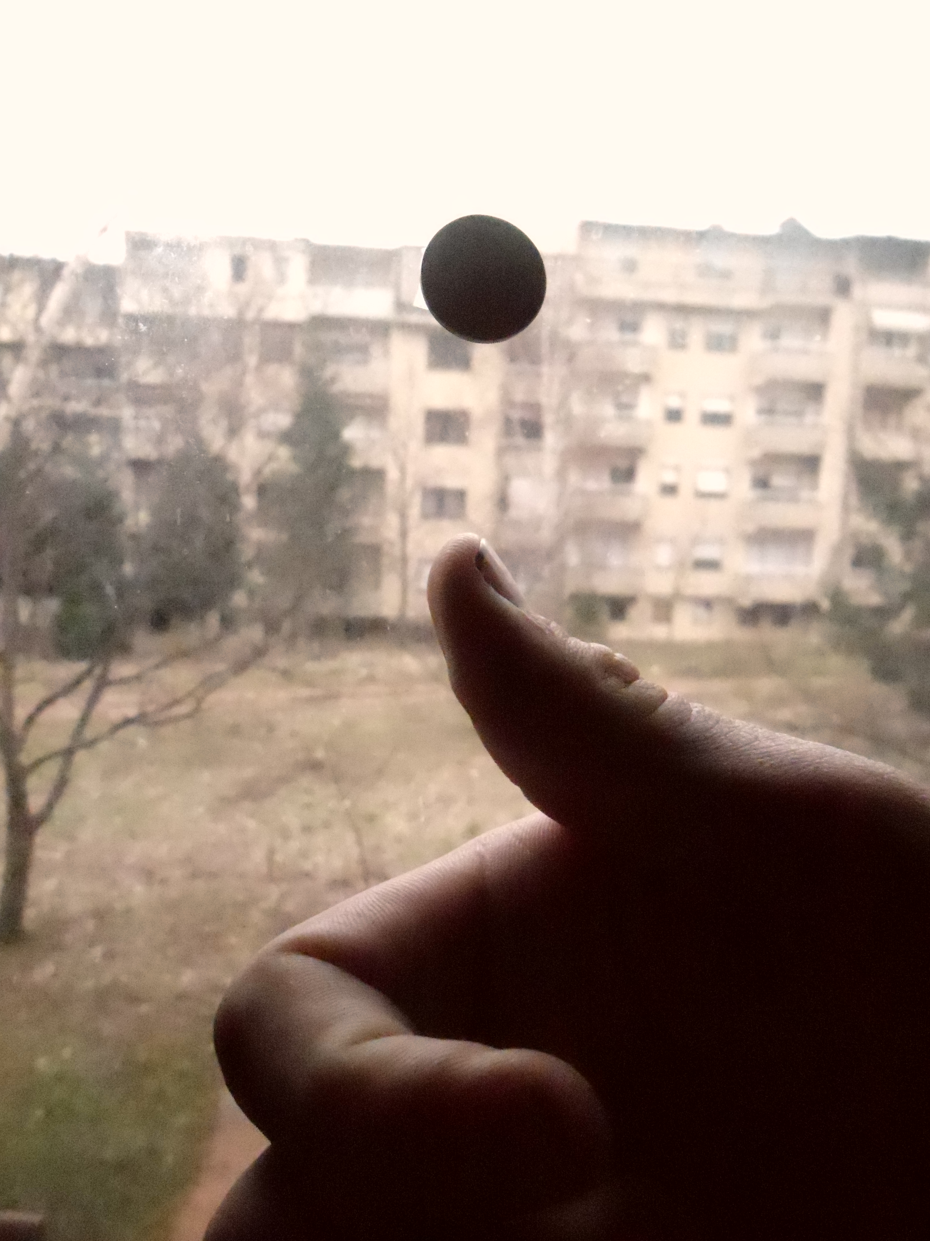 Tossed coin.